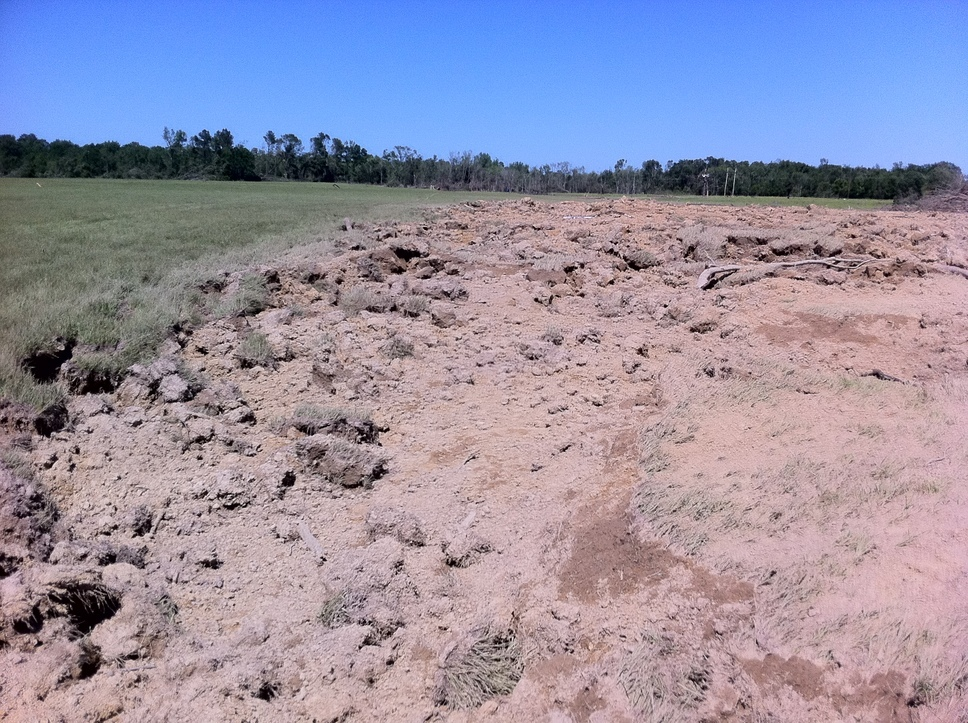 Significant ground scouring near Philadelphia, Mississippi